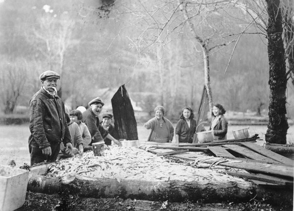 Nuxálk People gathered around an eulichan stink box, which is located near the Bella Coola River. From left to right is Norman Thompson, Rosie Hans, Honathan Wilson, Harry Schooner, Gertie Schooner, Daisy Tallio, Mary Heathcote. April 1935